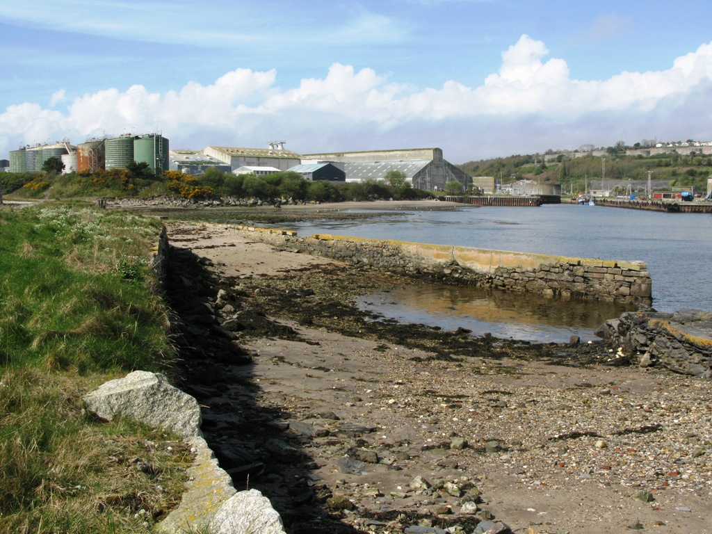 Par harbour, Cornwall, United Kingdom. This view is looking westwards from the breakwater across an abandonded boat-builders slipway, towards the china clay driers.